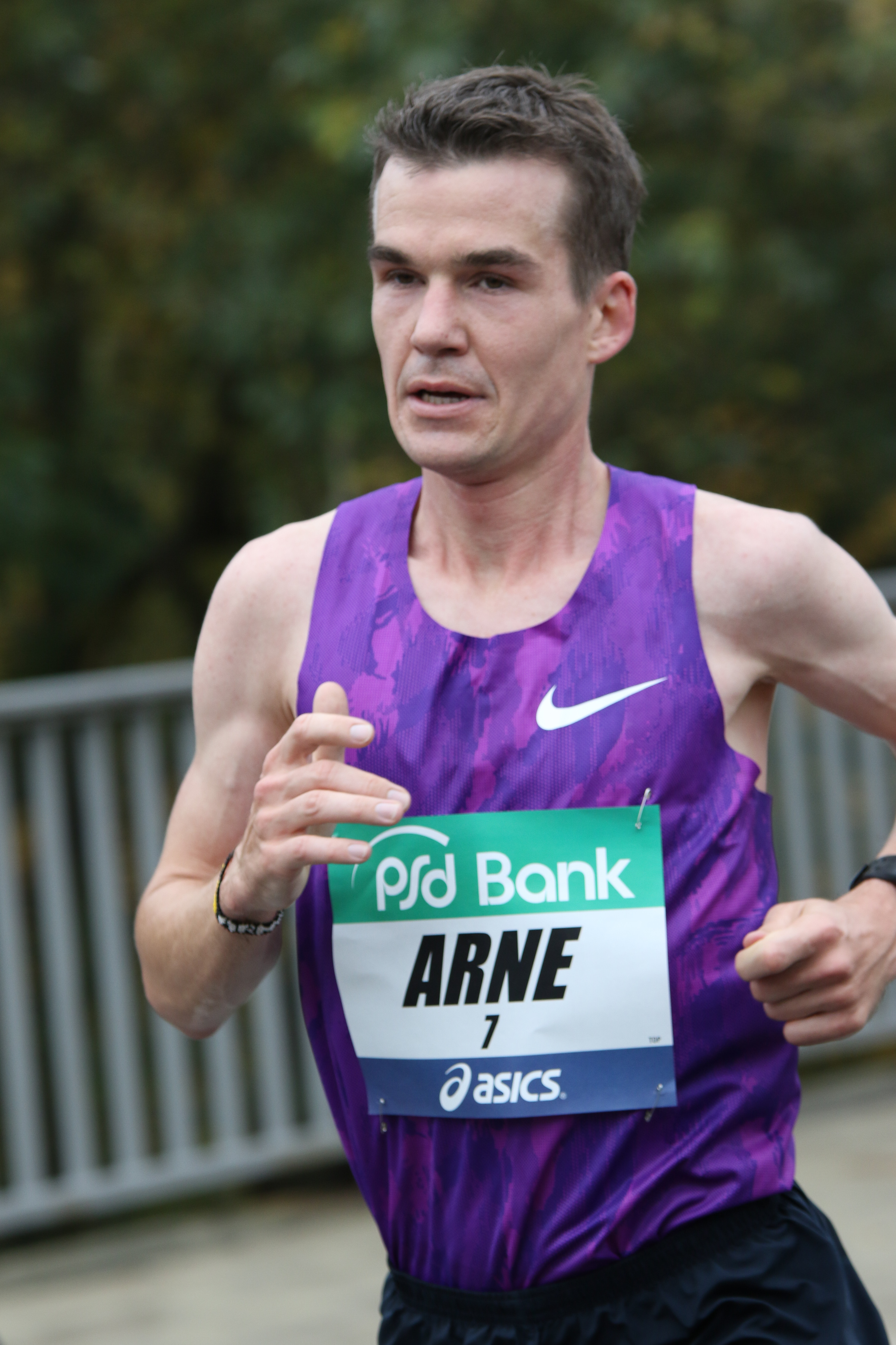 Frankfurt Marathon 2015 Old Nidda Bridge, Frankfurt-Nied, Arne Gabius